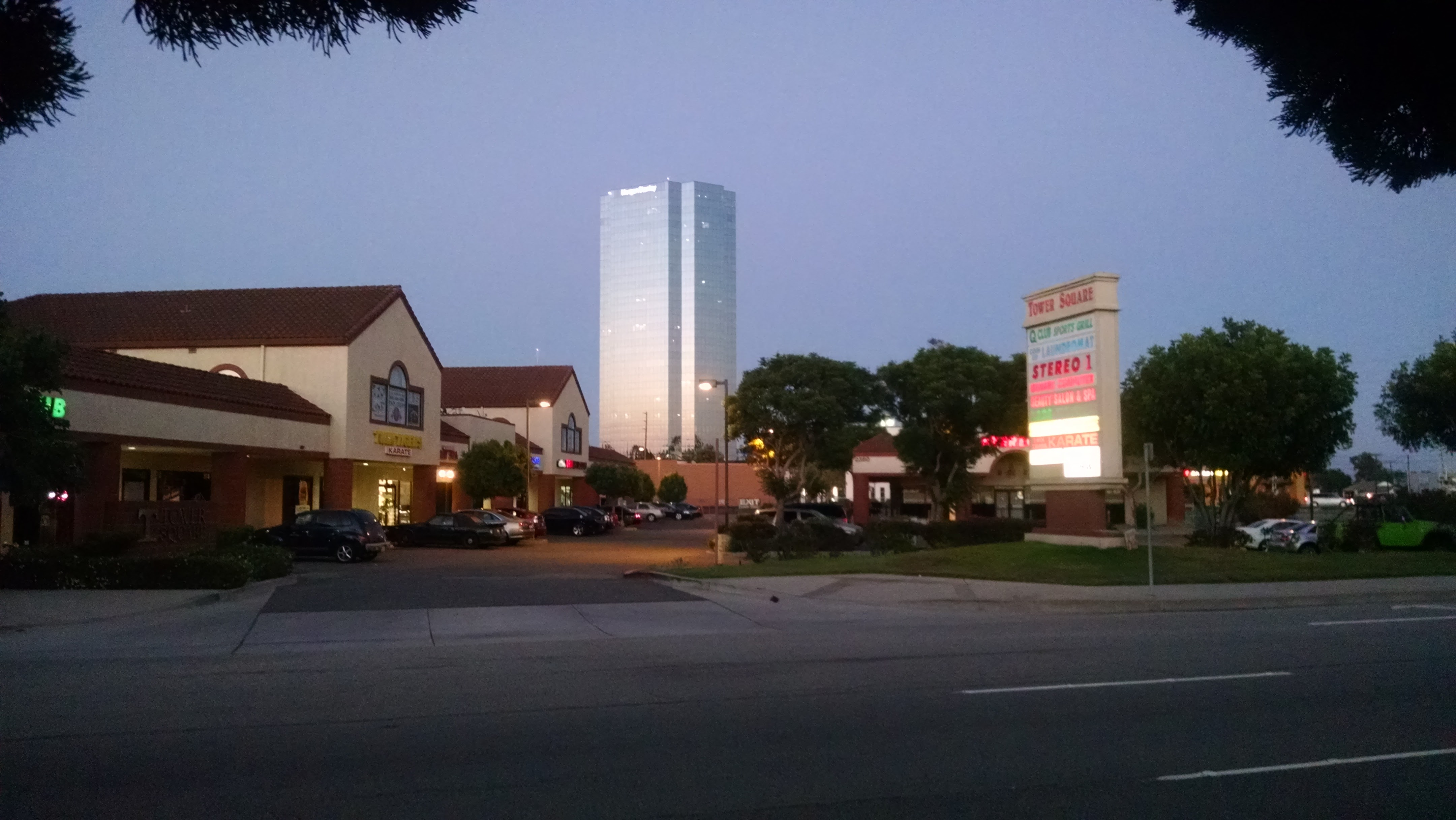 Oxnard, California skyline with Topa Financial Tower, highest building in Ventura County